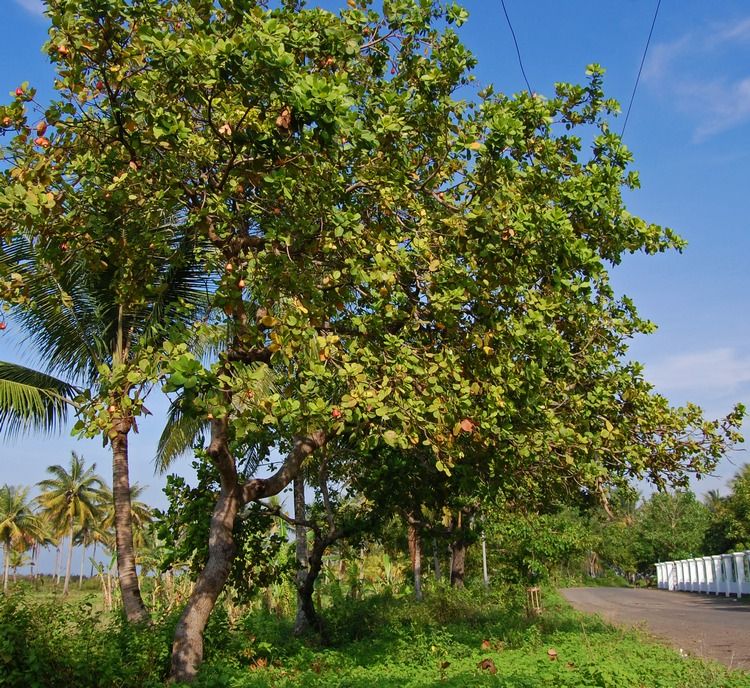 Anacardium occidentale, habits. Planted at roadside of Palabuhan Ratu, West Java, Indonesia.